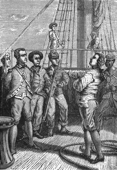 Illustration to Jules Verne's short story The Mutineers of the Bounty (Les Révoltés de la Bounty), 1879